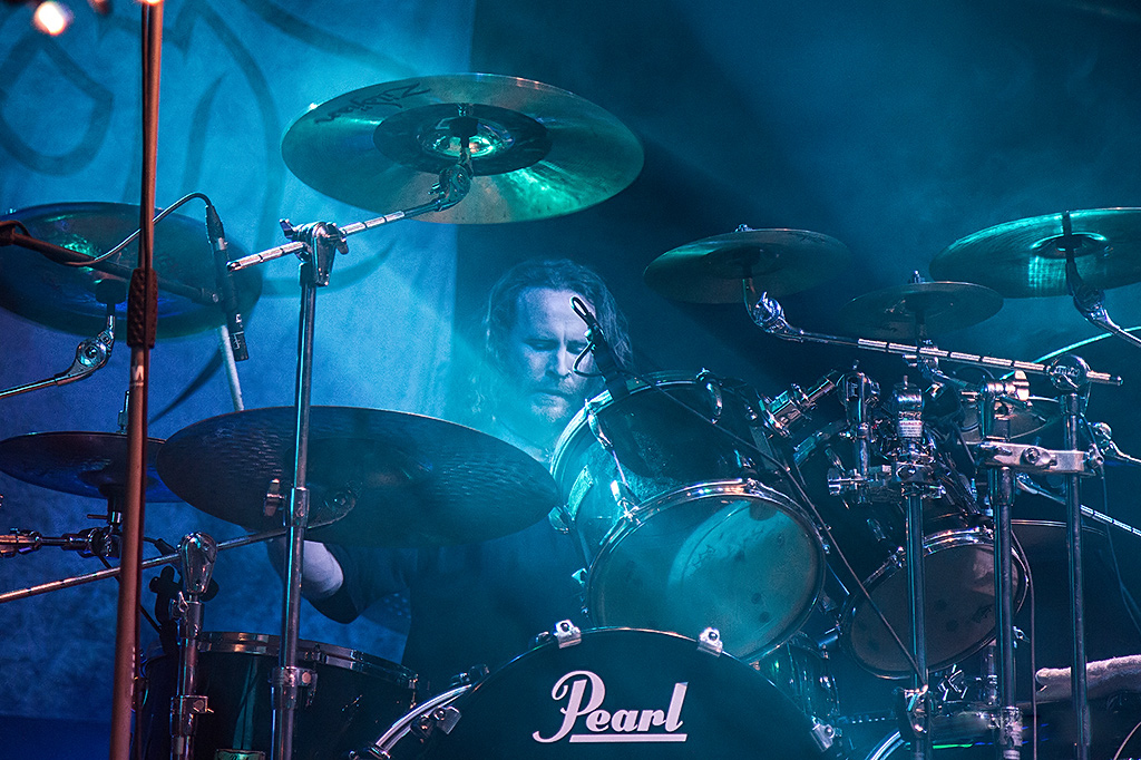 Psycroptic - 7.12.2012 - Music Hall, Geiselwind Psycroptic, Australian technical death metal band